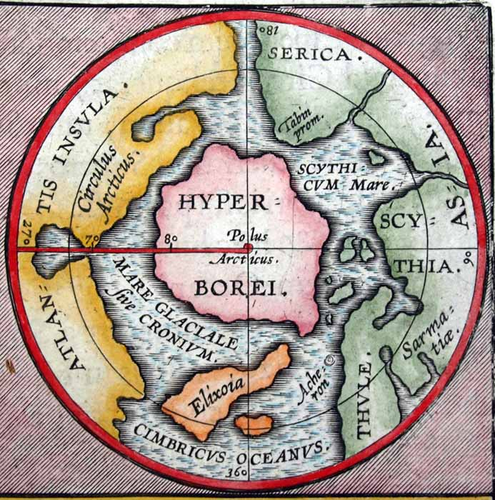 ARRIAN'S WORLD as depicted by ORTELIUS, 1624